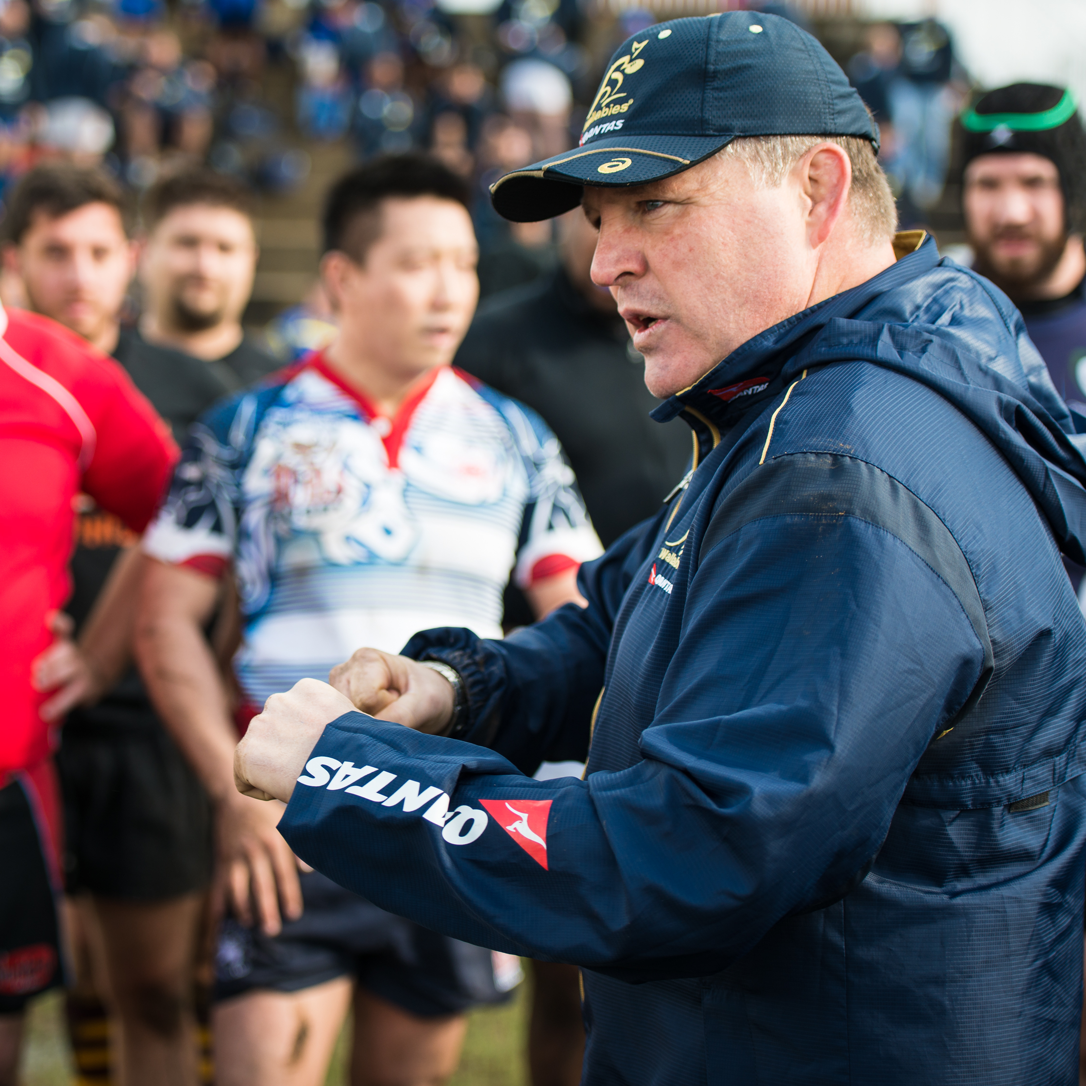 Coach Andrew Blades in 2014